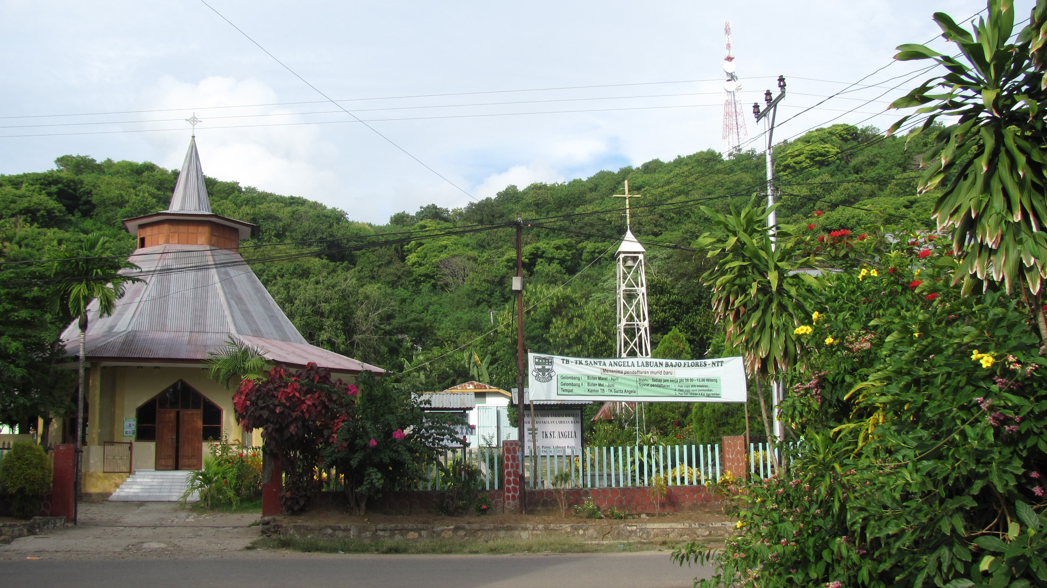 Cathoilic church, Labuhan Bajo, Flores, Indonesia